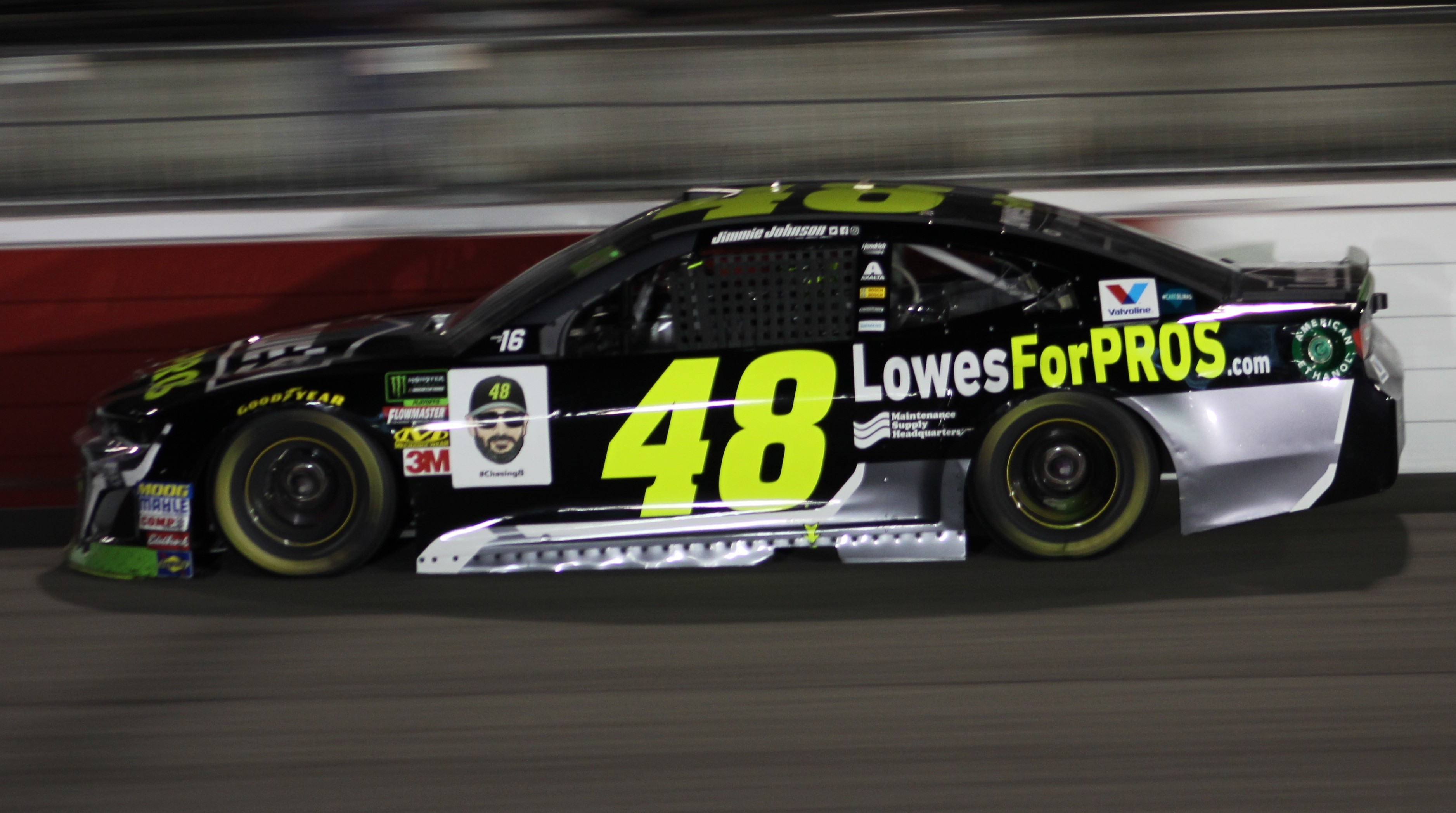 Jimmie Johnson's No. 48 Lowe's For Pros Chevrolet at Richmond Raceway in 2018